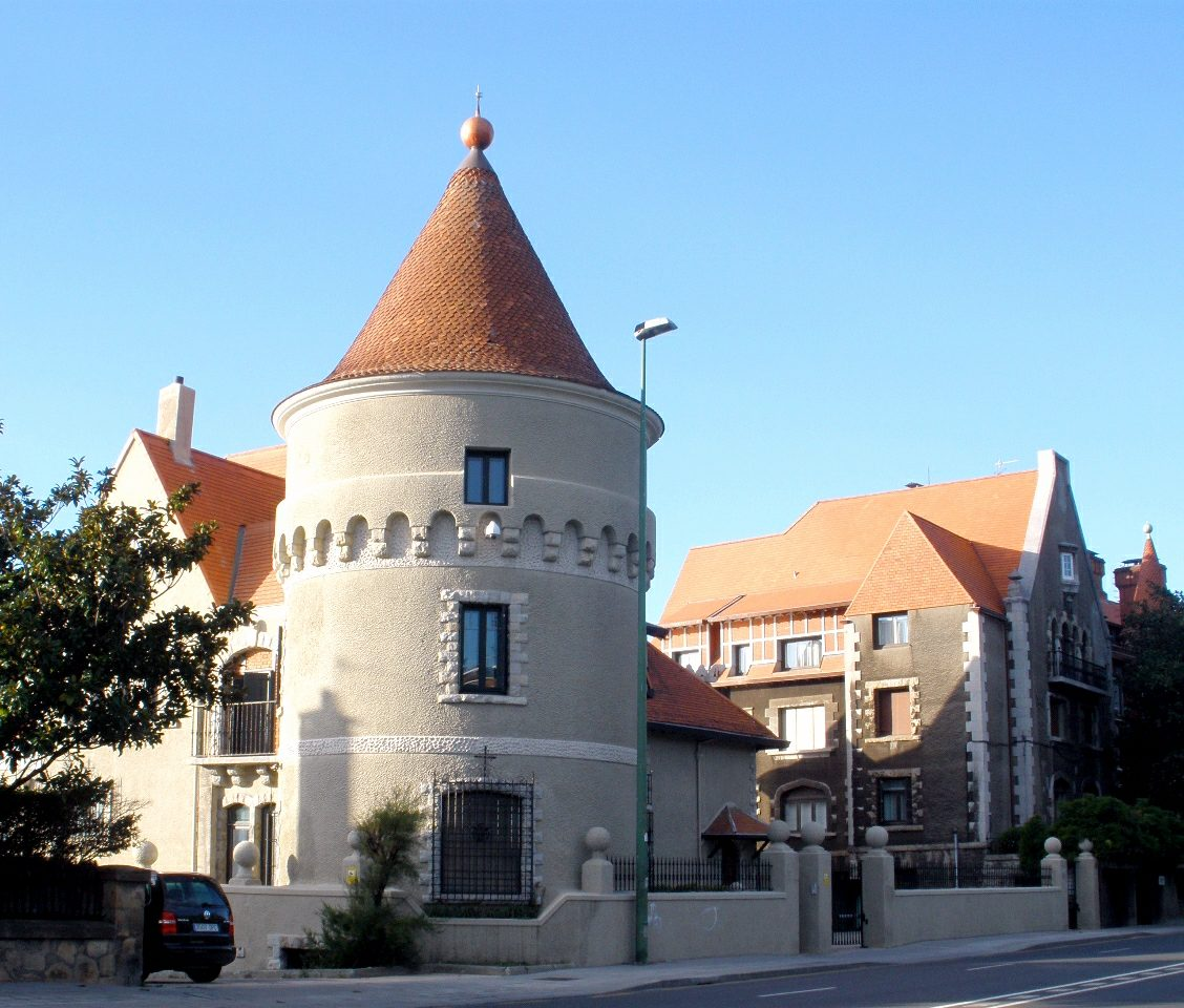 Cisco House, designed by Manuel María Smith, Zugazarte Avenue, Areeta - Las Arenas, Getxo (Biscay)